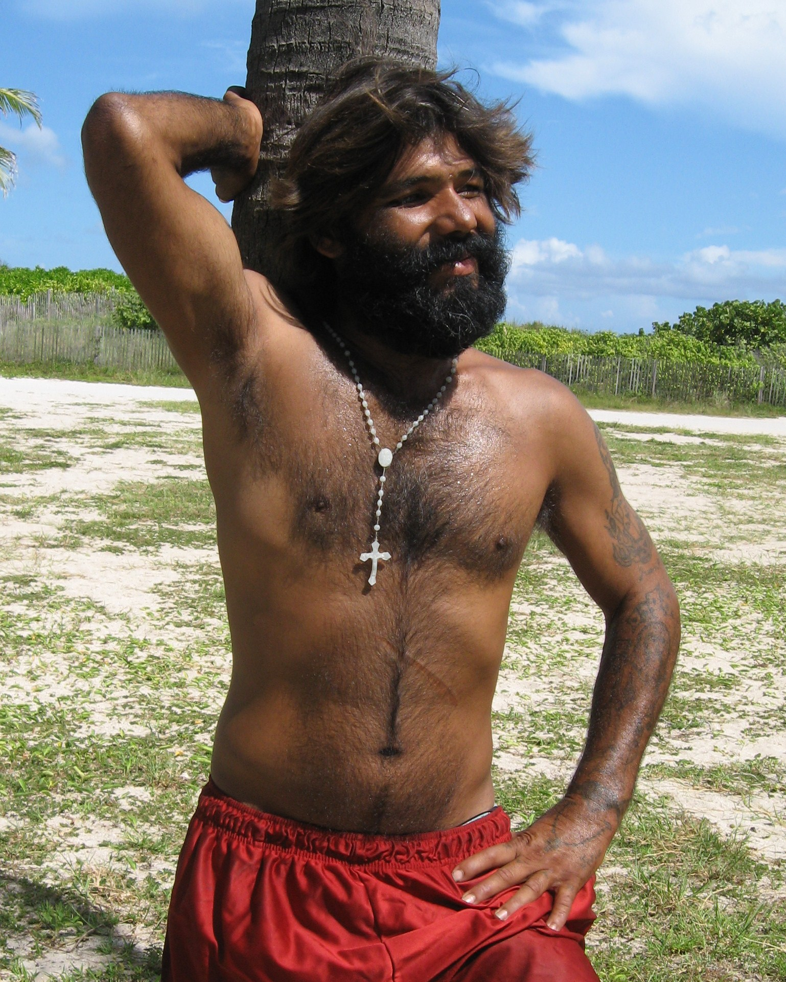 He told me he is going to shave the beard. At first I could not stand it but it is starting to grow on me.